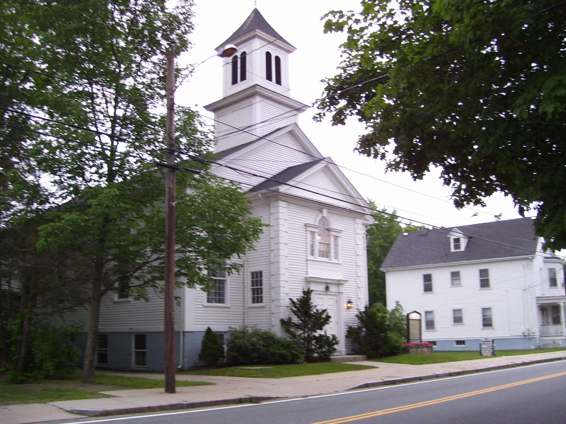 This is my 2008 photo of the North Scituate Baptist Church in Scituate, Rhode Island.